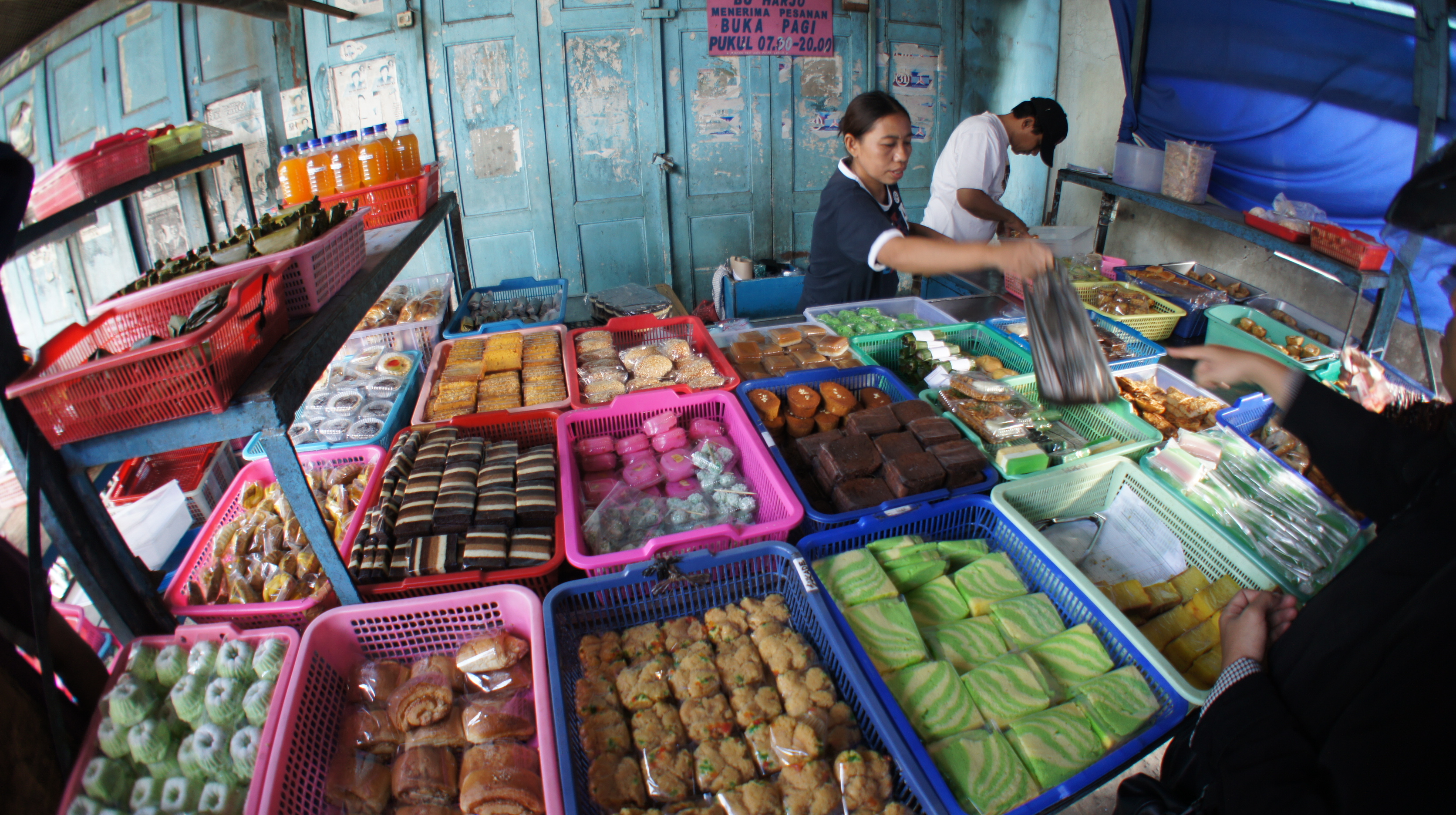 Cake shop in Yogyakarta, Indonesia